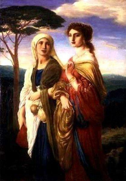 Miriam depicted on the right